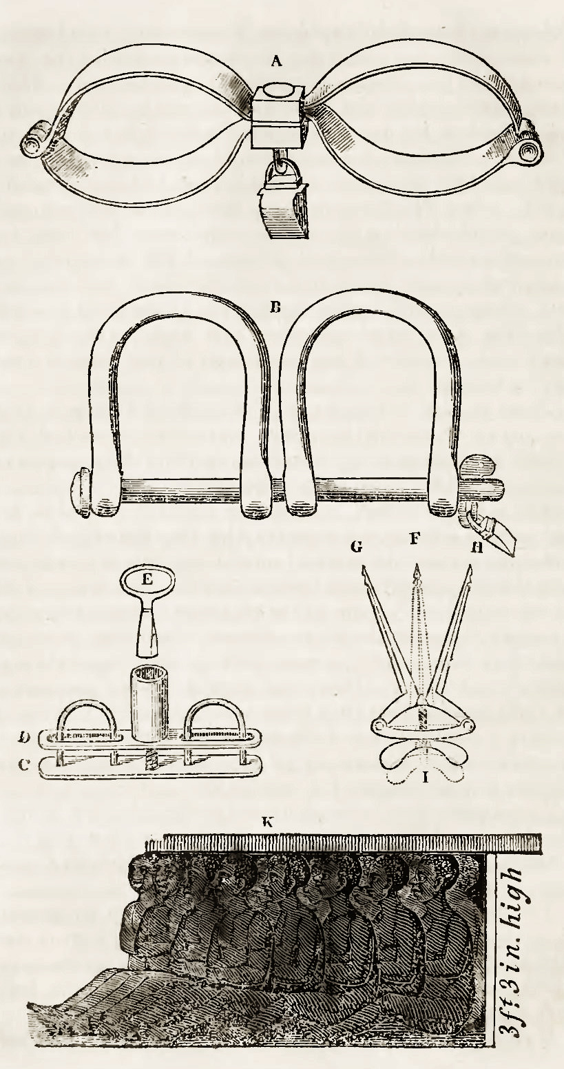 "The engraving on the next page will help to give a vivid idea of the Elysium enjoyed by negroes, during the Middle Passage. Fig. A represents the iron hand-cuffs, which fasten the slaves together by means of a little bolt with a padlock. B represents the iron shackles by which the ancle of one is made fast to the ancle of his next companion. Yet even thus secured, they do often jump into the sea, and wave their hands in triumph at the approach of death. E is a thumb-screw. The thumbs are put into two rounds holes at the top; by turning a key a bar rises from C to D by means of a screw; and the pressure becomes very painful. By turning it further, the blood is made to start; and by taking away the key, as at E, the tortured person is left in agony, without the means of helping himself, or being helped by others. This is applied in case of obstinacy, at the discretion of the captain. I, F, is a speculum oris. The dotted lines represent it when shut; the black lines when open. It opens at G, H, by a screw below with a knob at the end of it. This instrument was used by surgeons to wrench open the mouth in case of lock-jaw. It is used in slave-ships to compel the negroes to take food; because a loss to the owners would follow their persevering attempts to die. K represents the manner of stowing in a slave-ship." Illustration from An Appeal in Favor of that Class of Americans Called Africans, page 16